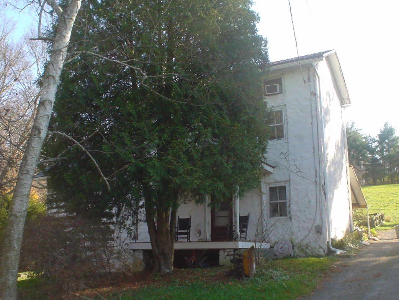 Cheyney Log House in Delaware County, PA. On NRHP. Difficult to photograph due to no trespassing restrictions!